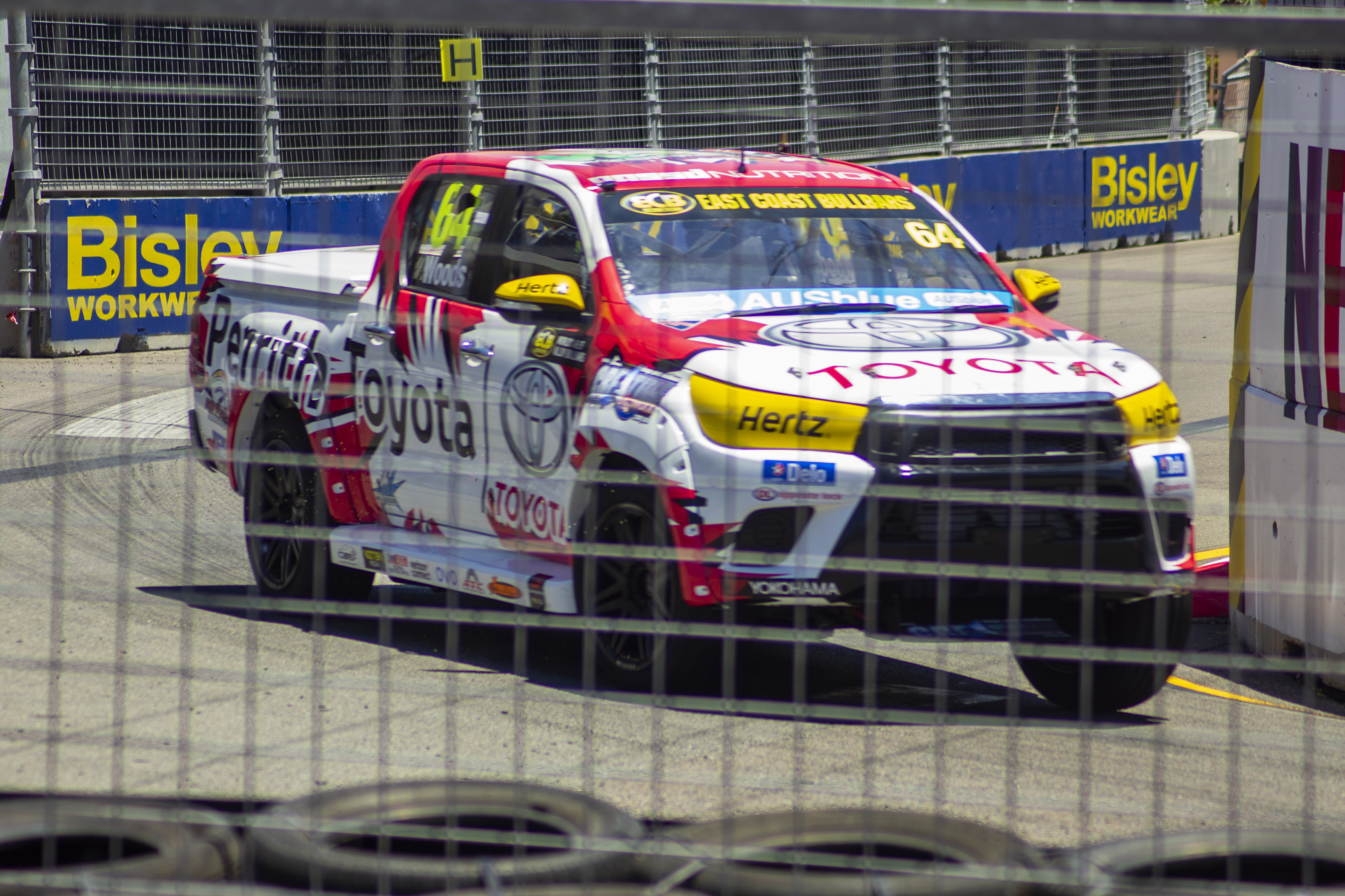 Craig Woods at the 2018 Coates Hire Newcastle 500